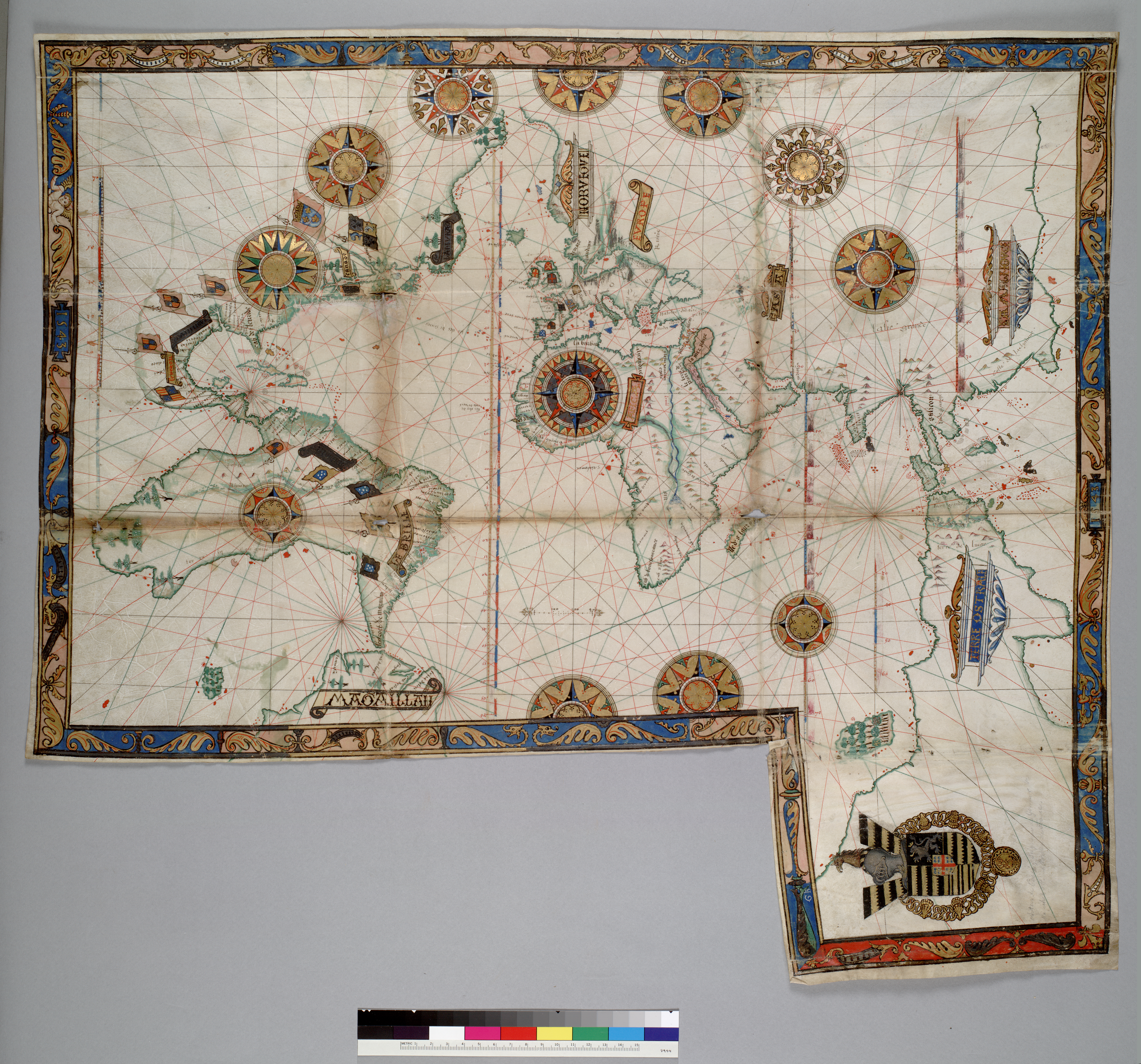 World chart, which includes America and a large promontory of the "Terre Ostrale" (Terra Australis) inscribed in its northern part terre de lucac (Locach). HM 46. PORTOLAN ATLAS and NAUTICAL ALMANAC. France, 1543. Call Number: HM 46 Folio: Binding Description: World chart, which includes America and a large "Terra Java" (Australia?).